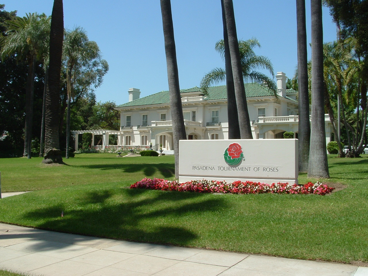 Pasadena Tournament of Roses, Tournament House with view of sign